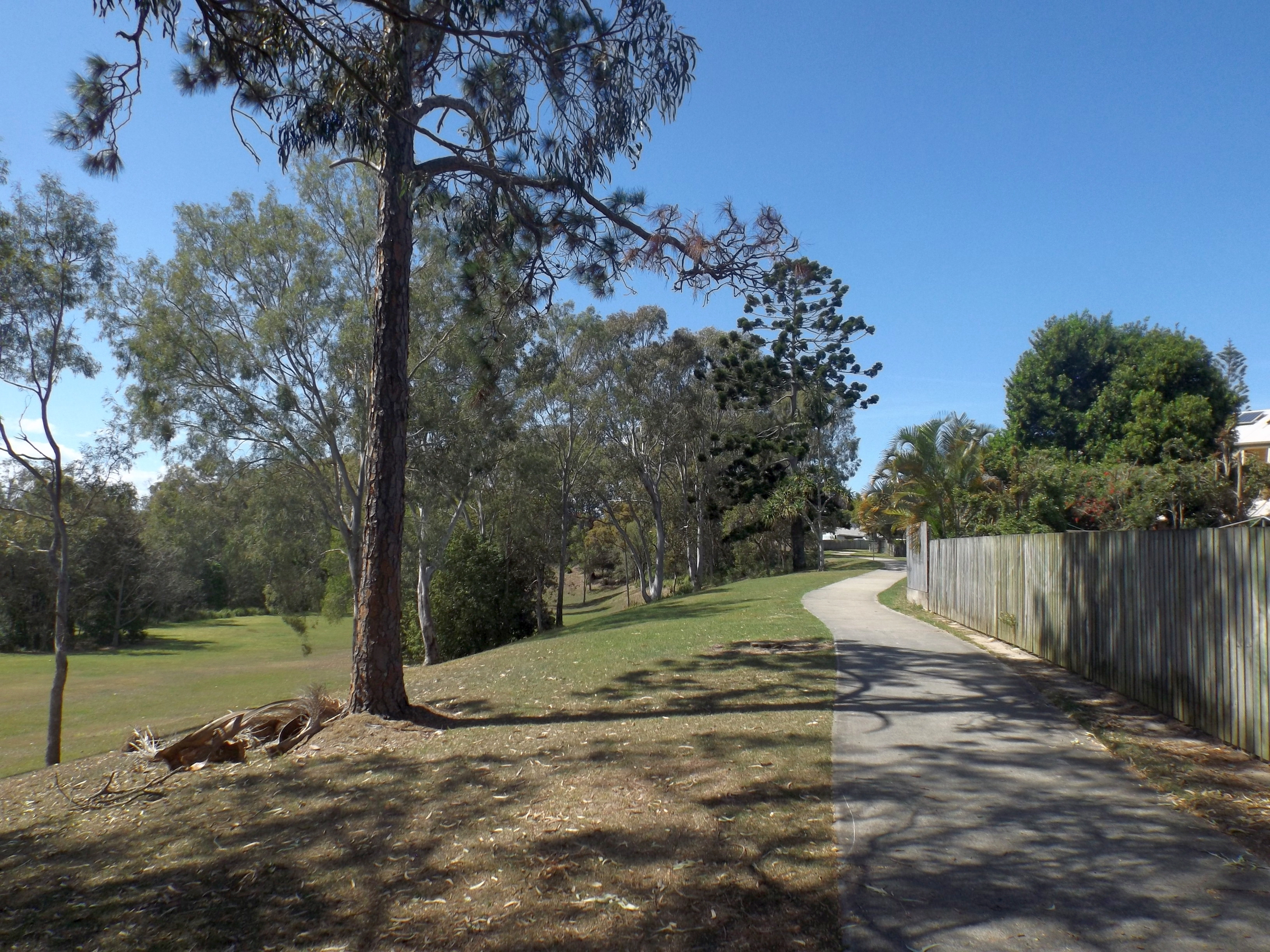 Photo of park and Moreton Bay Cycleway at the end of Gynther Street in Rothwell, Moreton Bay Region, Queensland, Australia.